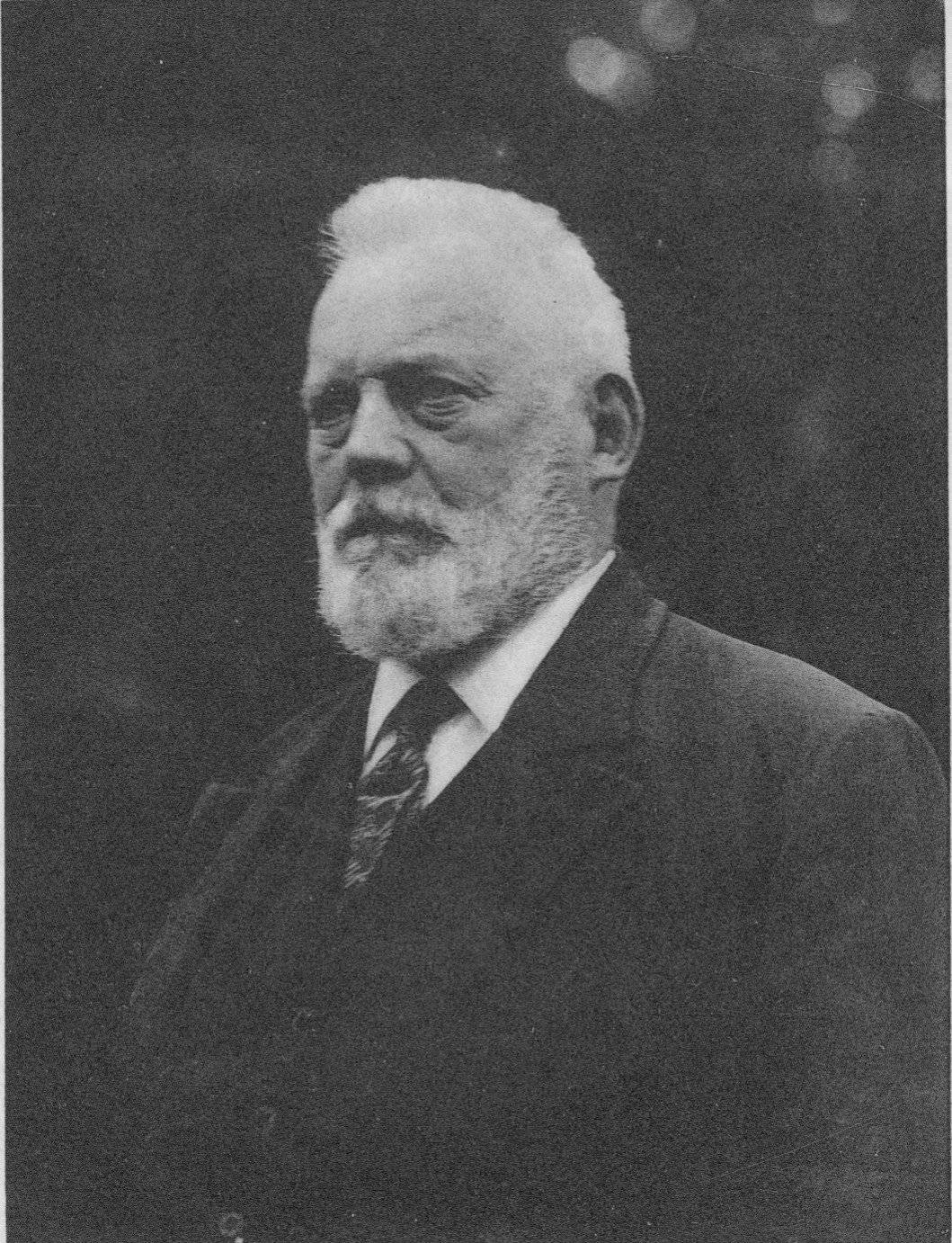 Portrait of Carl Griese.